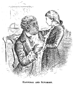 Picture of Gannibal speaking with Alexander Suvorov.